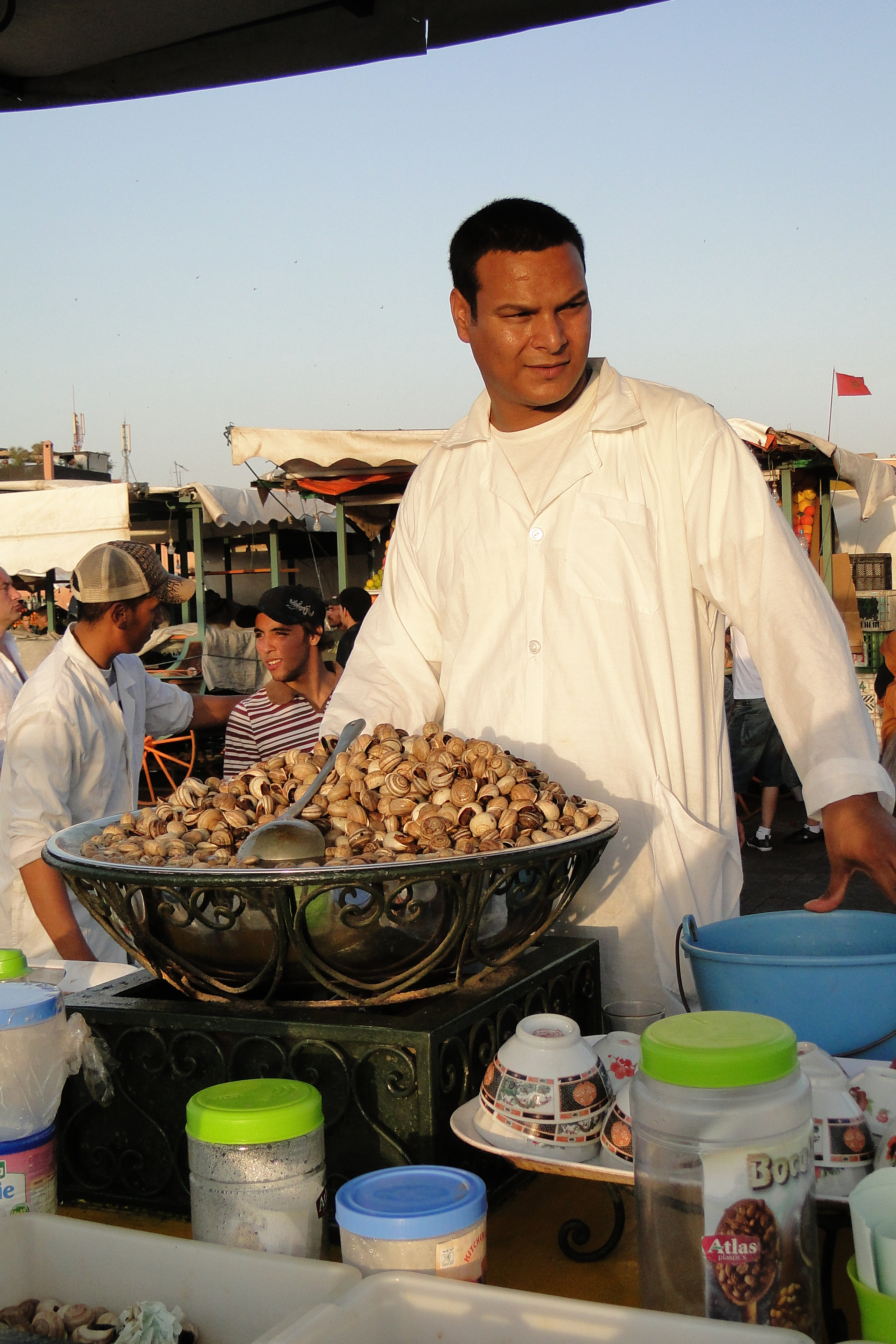 Snails for Sale - Djermaa el-Fna (Central Square) - Medina (Old City) - Marrakesh - Morocco